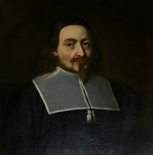 Portrait of the first governor of the Massachusetts Bay Colony, John Endecott.